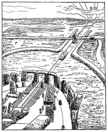 Stonehenge on midsummer, 1700 BC